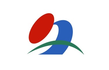 Flag of Naka Tokushima